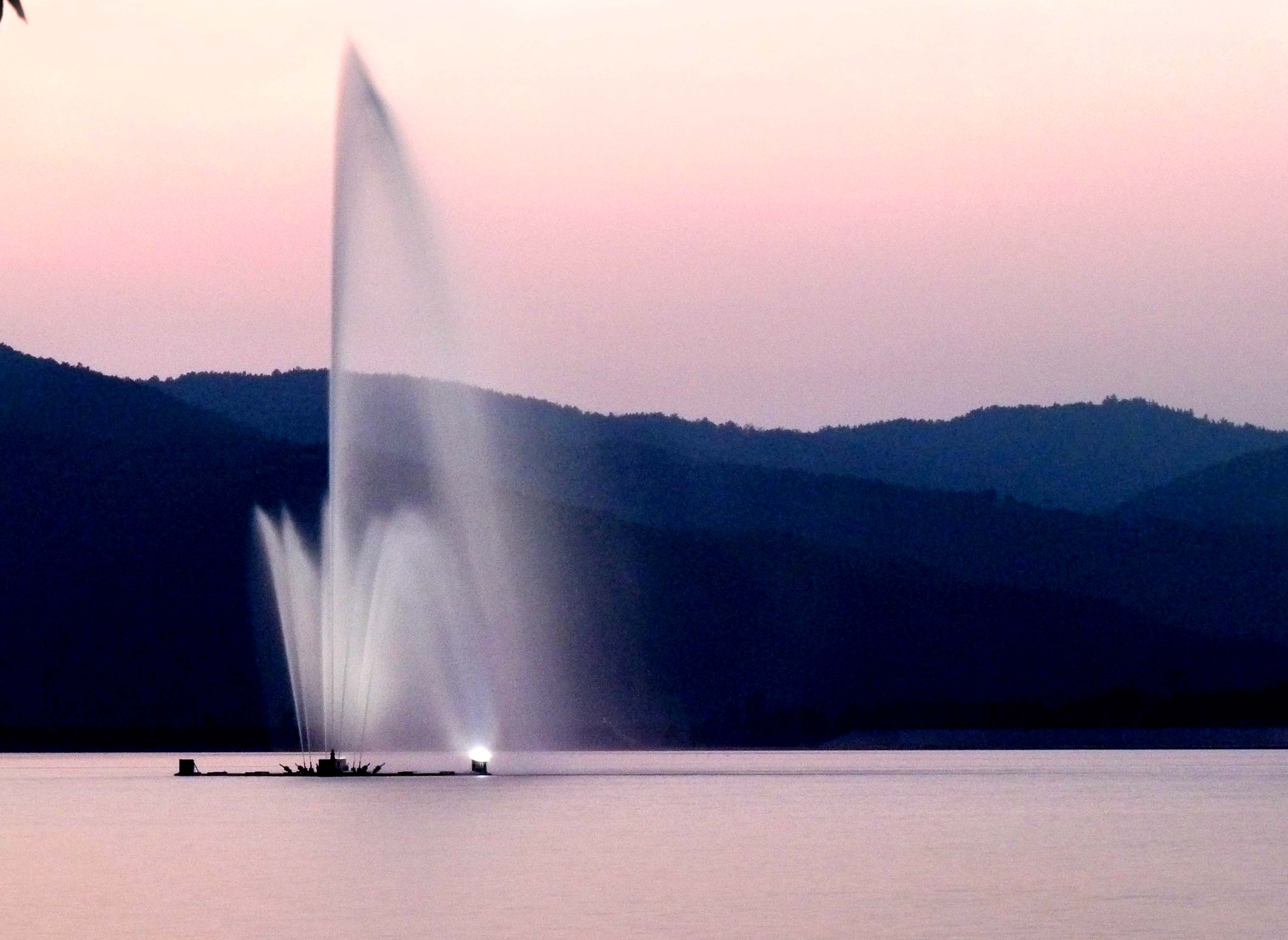 A view of Bomun Lake in Bomun Lake Resort, Gyeongju, North Gyeongsang province, South Korea